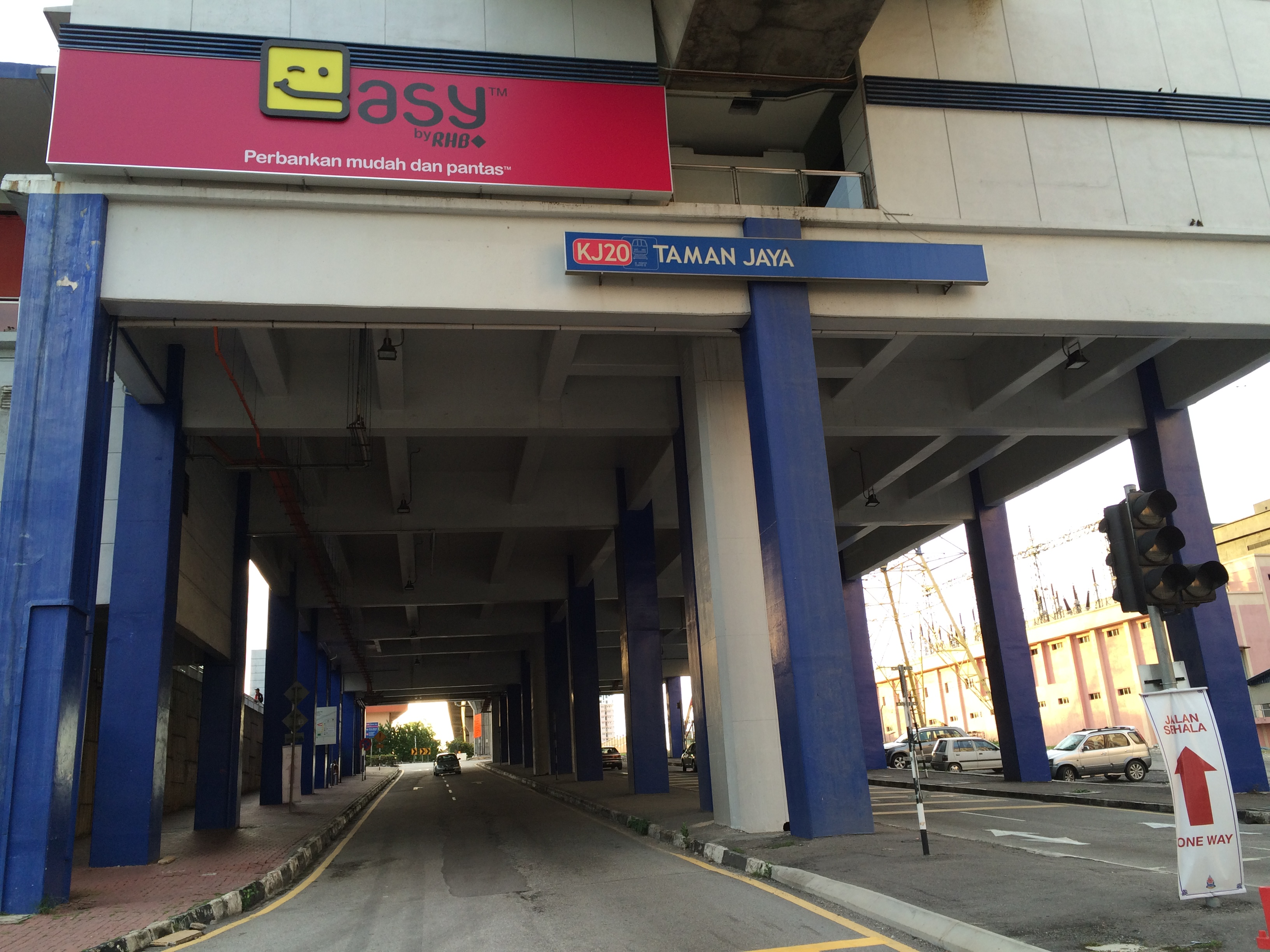 Taman Jaya LRT - 2